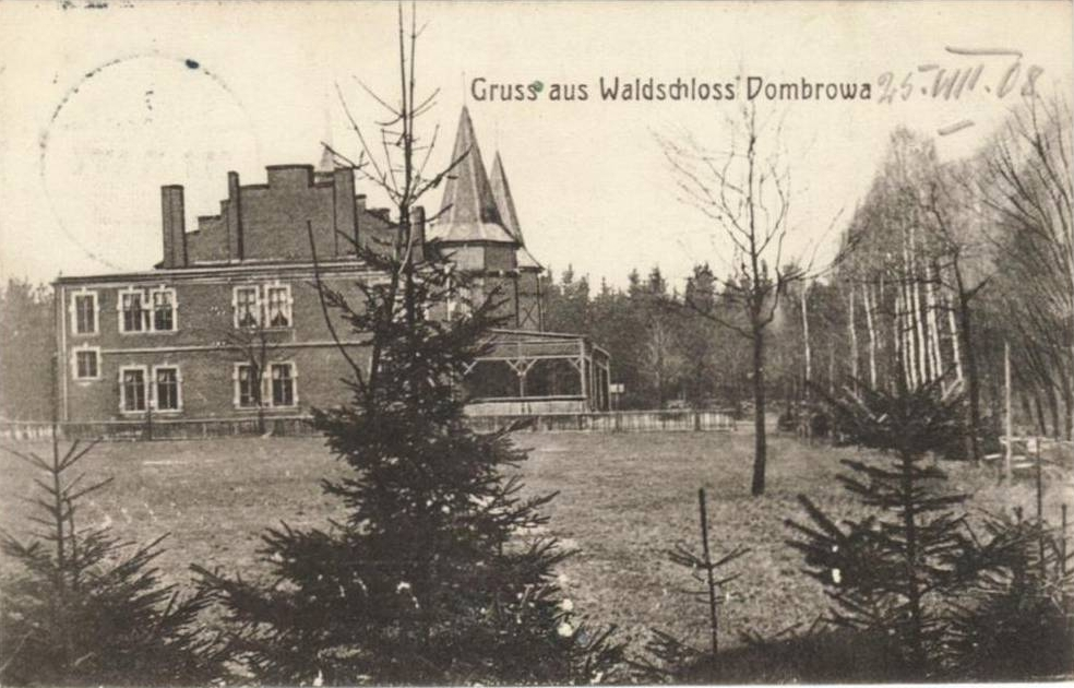 Restaurant Waldschloss in Dombrowa (later Dąbrowa Miejska) in Beuthen (later Bytom, Poland), a German postcard.